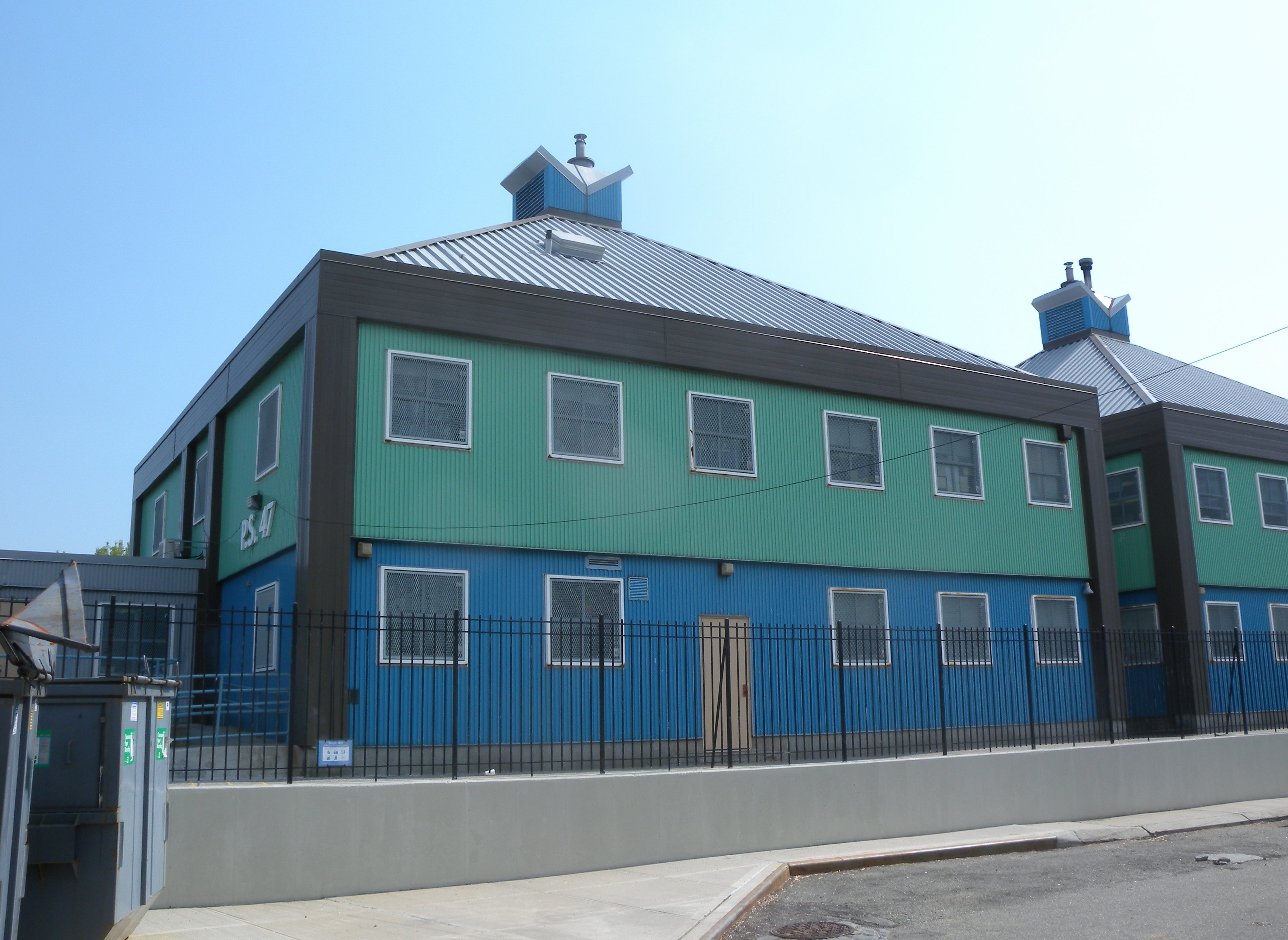 Looking southwest at PS 47 on a mostly sunny afternoon.